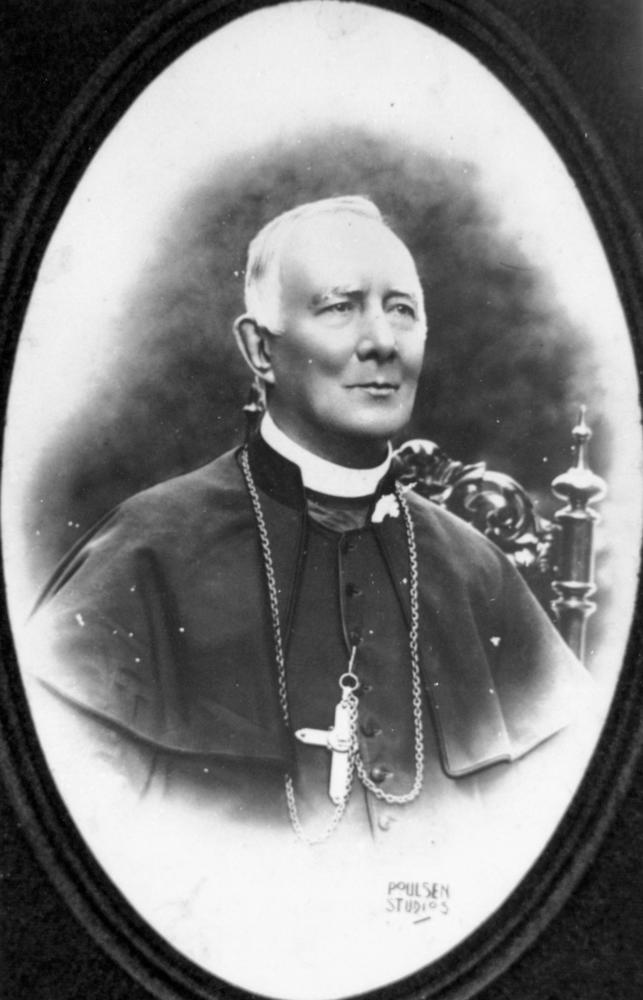 Portrait of Patrick Cardinal Moran, Archbishop of Sydney (1884-1911), taken in Brisbane, Queensland circa 1900